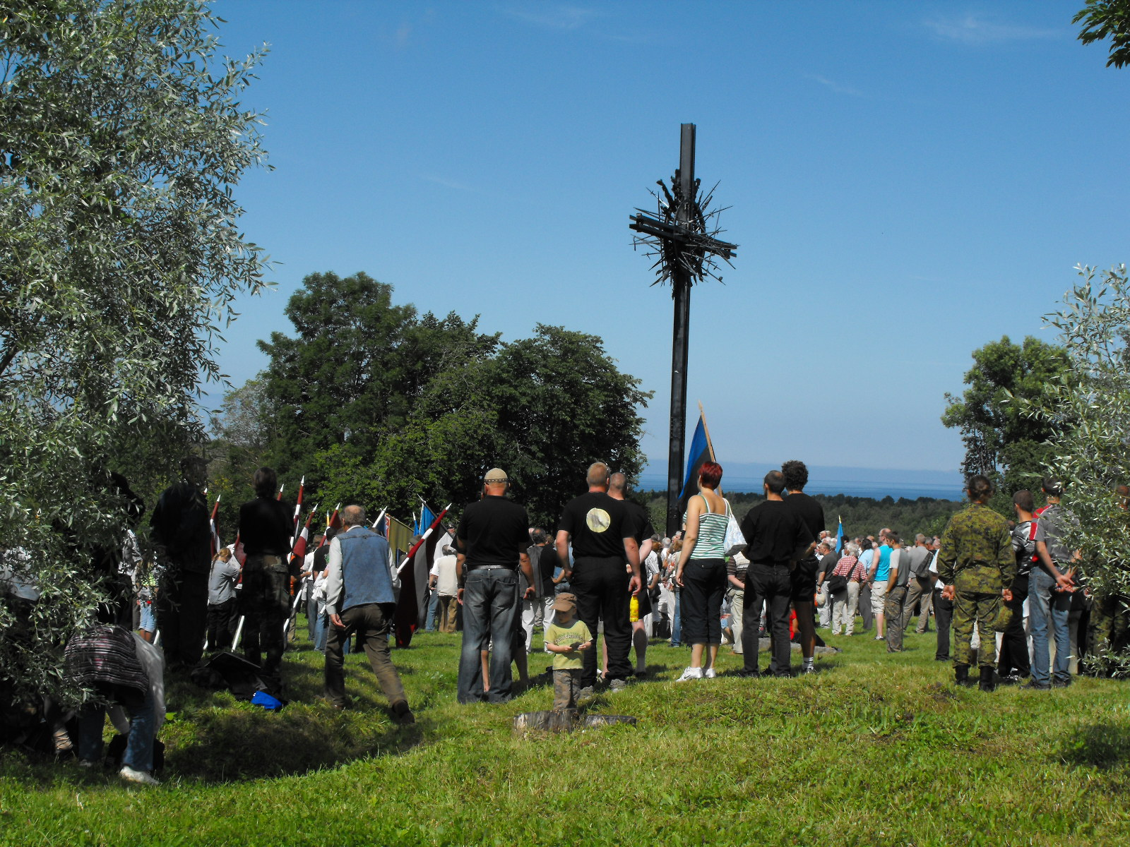 Memorial service on the 65th anniversary of the battles on the Sinimäed hills in 1944, where a number of veterans attended including including members of the W:20th Waffen Grenadier Division of the SS (1st Estonian).